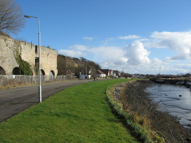 A Charlestown scene The old limekilns and atmospheric harbour are separated by a minor road.